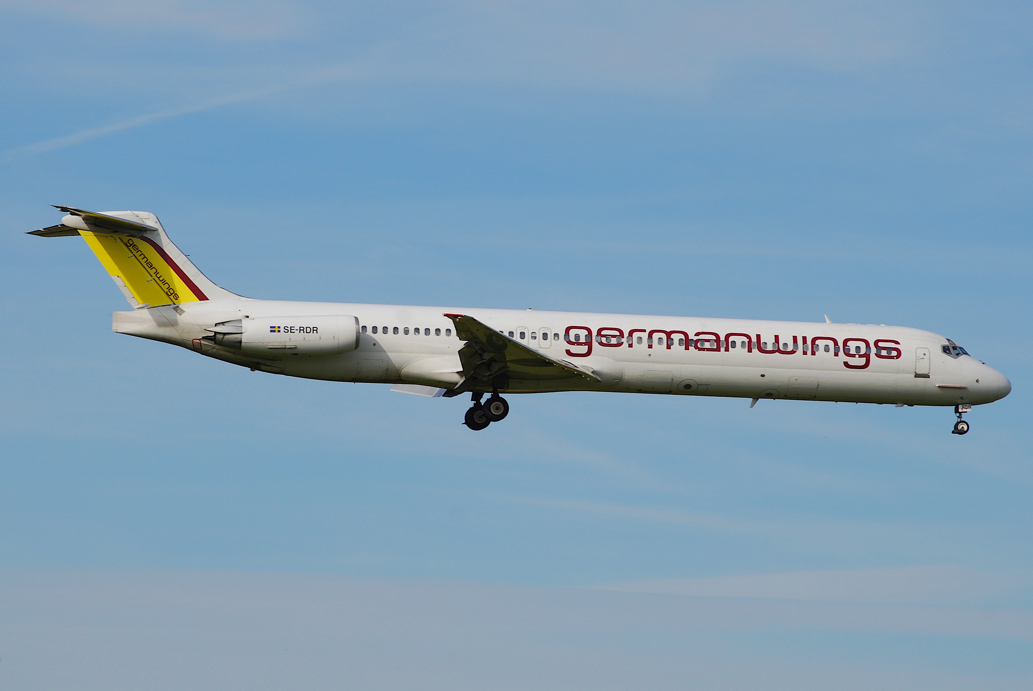 First flight: November 11, 1982...(c/n 49151/ 1088) 25/03/1983 Finnair OH-LMO 10/10/2003 Nordic Airlink SE-RDR 25/05/2006 Nordic Regional SE-RDR 25/03/2007 Germanwings SE-RDR 29/08/2007 Flynordic SE-RDR 12/04/2008 Norwegian Air Shuttle SE-RDR stored 10/2009 - scrapped 02/2010